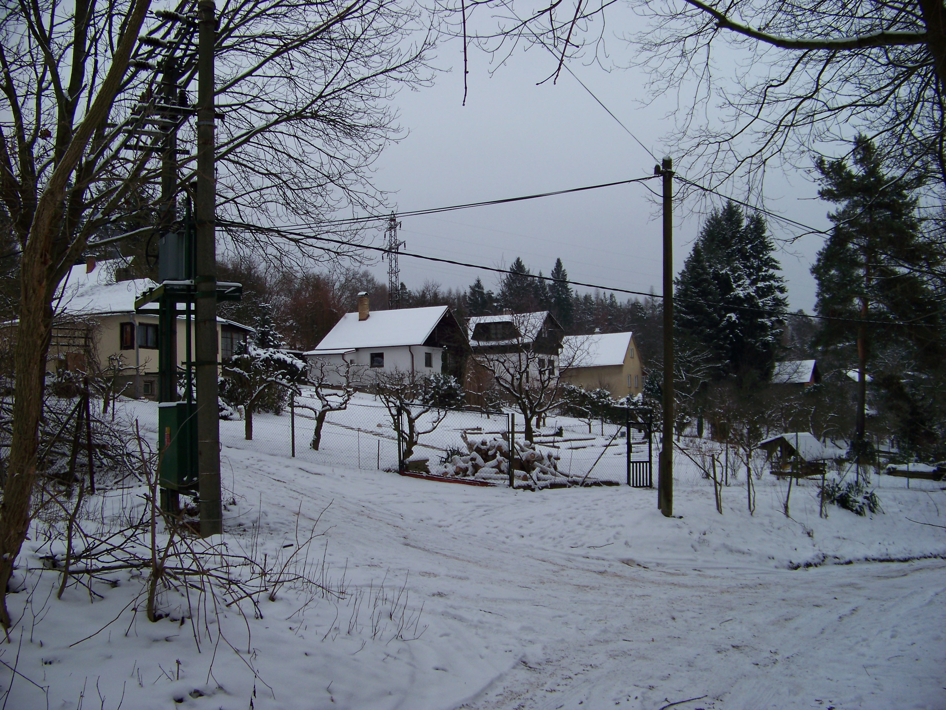 Jílové u Prahy-Kabáty, Prague-West District, Central Bohemian Region, Czech Republic. A weekend village of Včelní Hrádek.